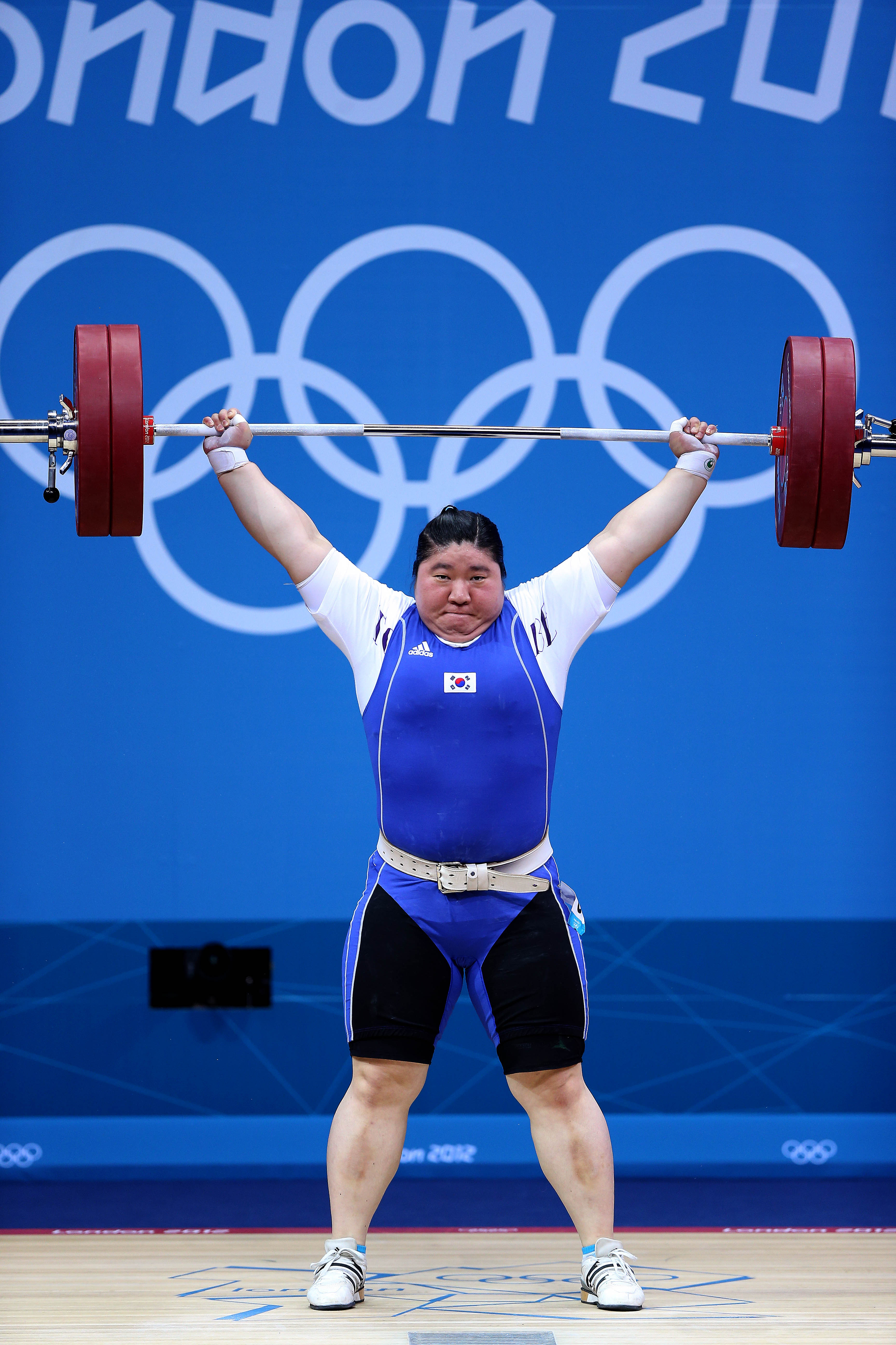 2012 London Olympic Games Mi-Ran Jang of South Korea competes during the women's +75kg event at the London 2012 Olympic Games Weightlifting competition, London, Britain. 2012.08.06. Photo by Korean Olympic Committee Ministry of Culture, Sports and Tourism Korean Culture and Information Service 2012 런던 올림픽 여자 +75kg급에 출전한 장미란 선수 사진제공 - 대한체육회 문화체육관광부 해외문화홍보원